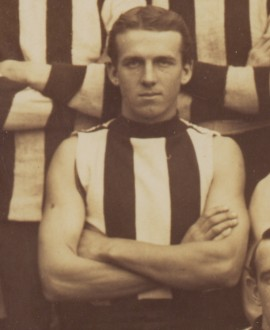 Photograph of Max Hislop in 1914